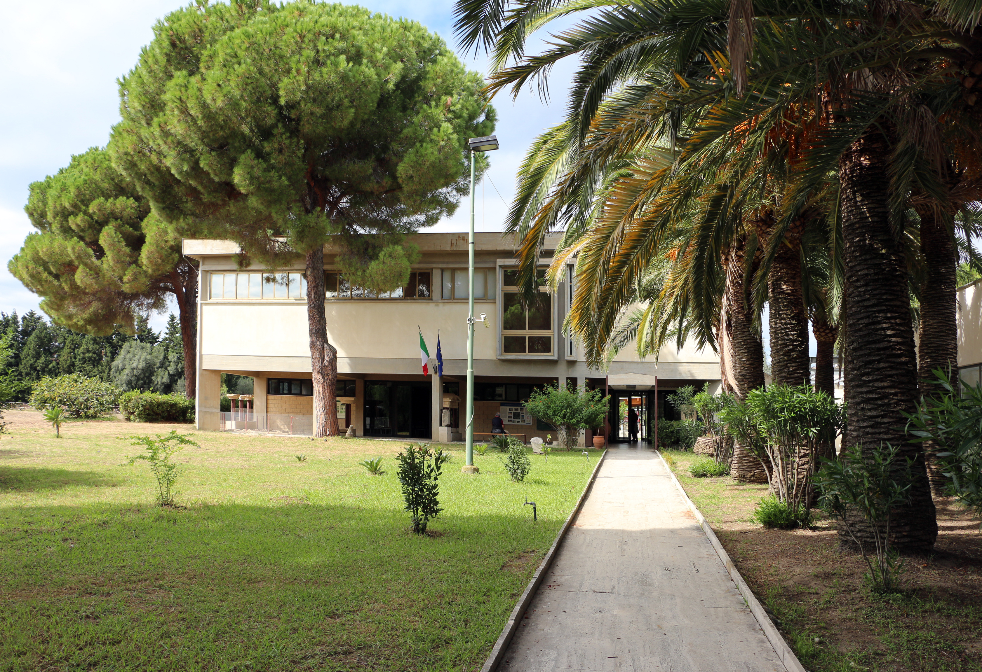 Lokroi Epizephyrioi